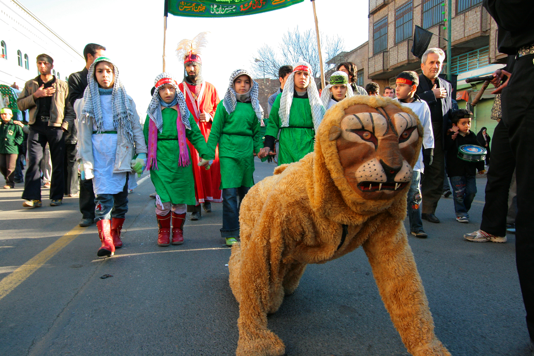 Mourning of Muharram